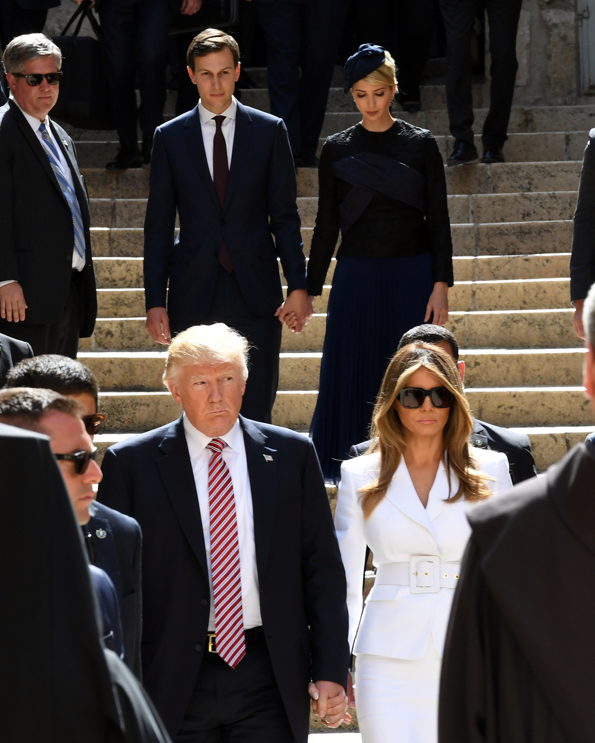 POTUS visit the Church of the Holy Sepulchre in Jerusalem.